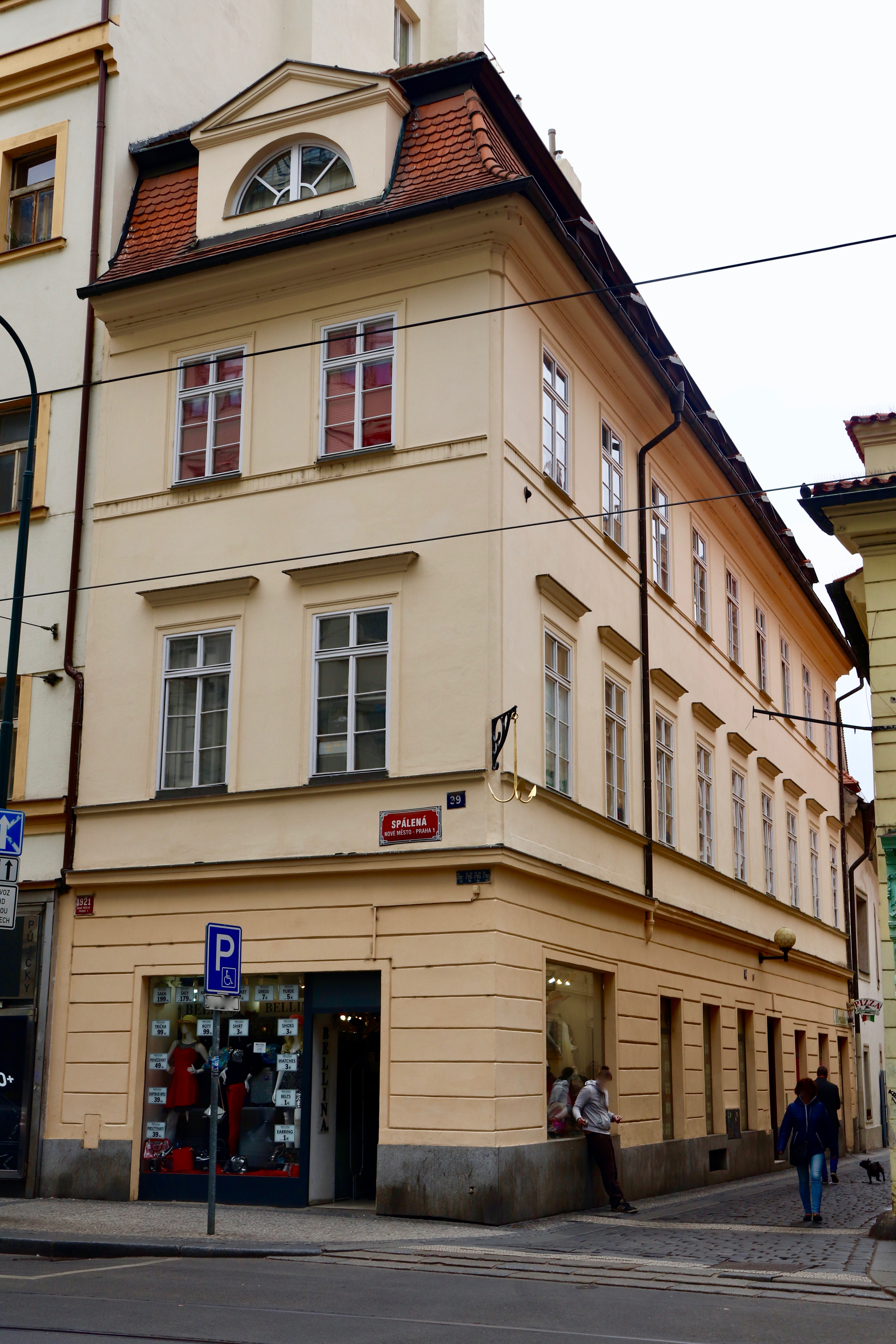 Pohled na dům z ulice Spálená